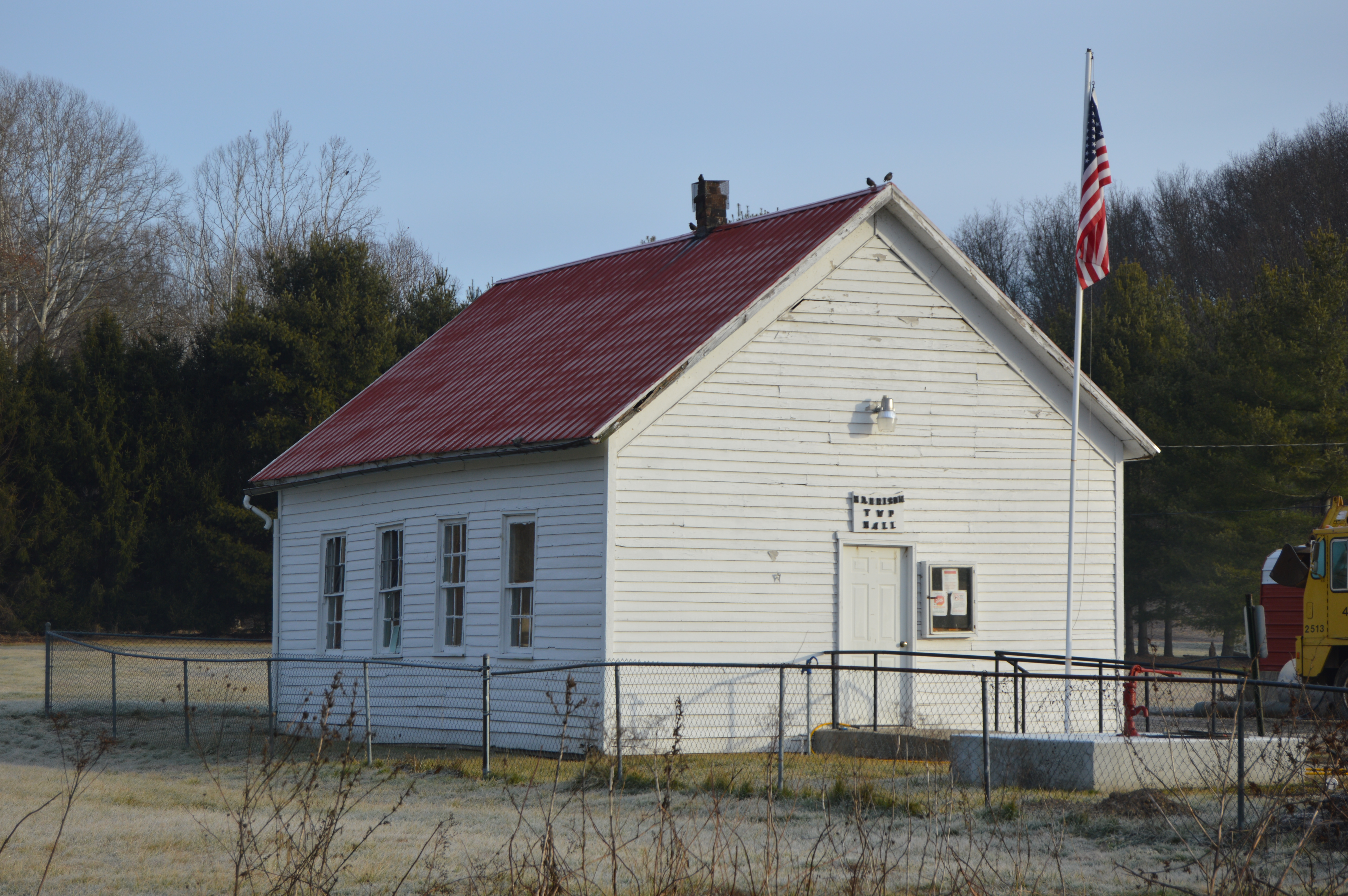 Western side and front of the Harrison Township hall, located on U.S. Route 50 east of Steven Branch Road in Harrison Township, Vinton County, Ohio, United States.